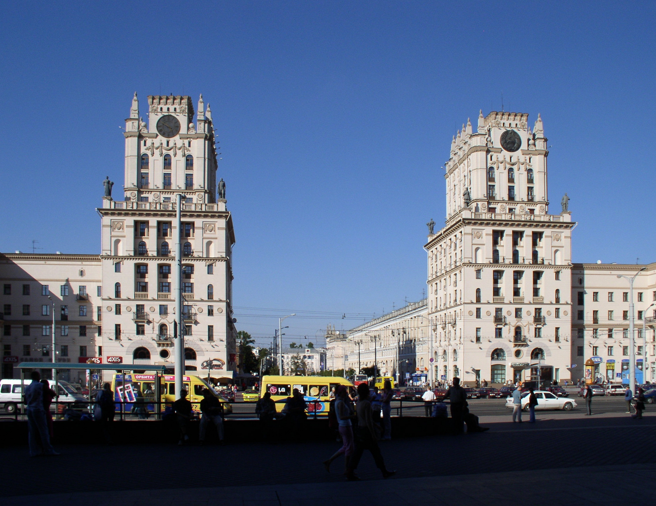 Railway station square. Minsk, Belarus.